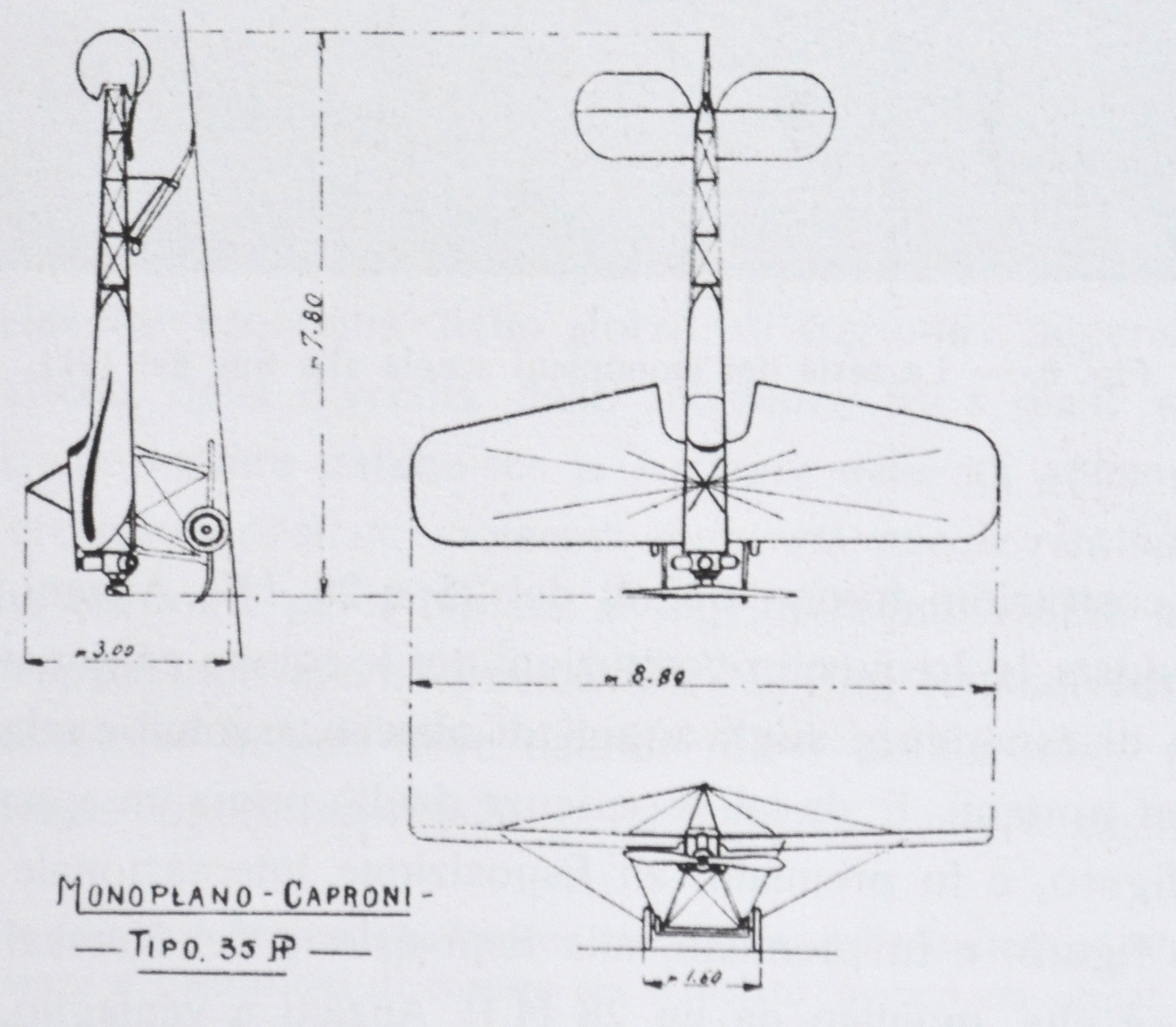 "3-view of the 30/35 HP Anzani" (translation of the original caption).